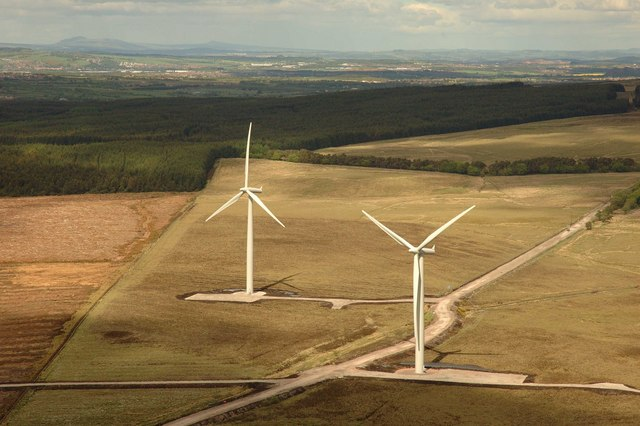 Windfarm. Two of the windmills on the Black Law wind farm